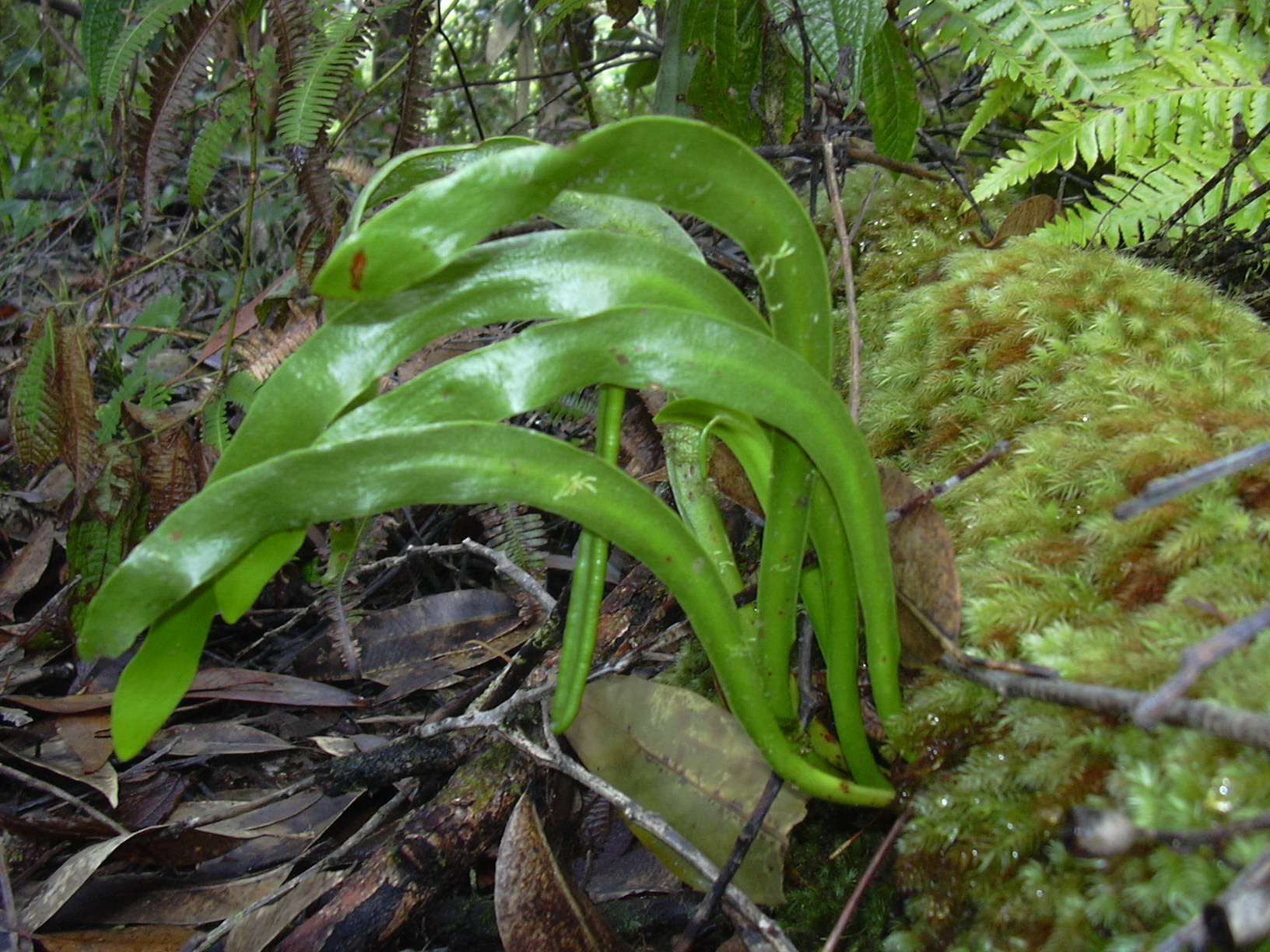 Ophioderma pendulum subsp. falcatum (habit). Location: Maui, Kopiliula